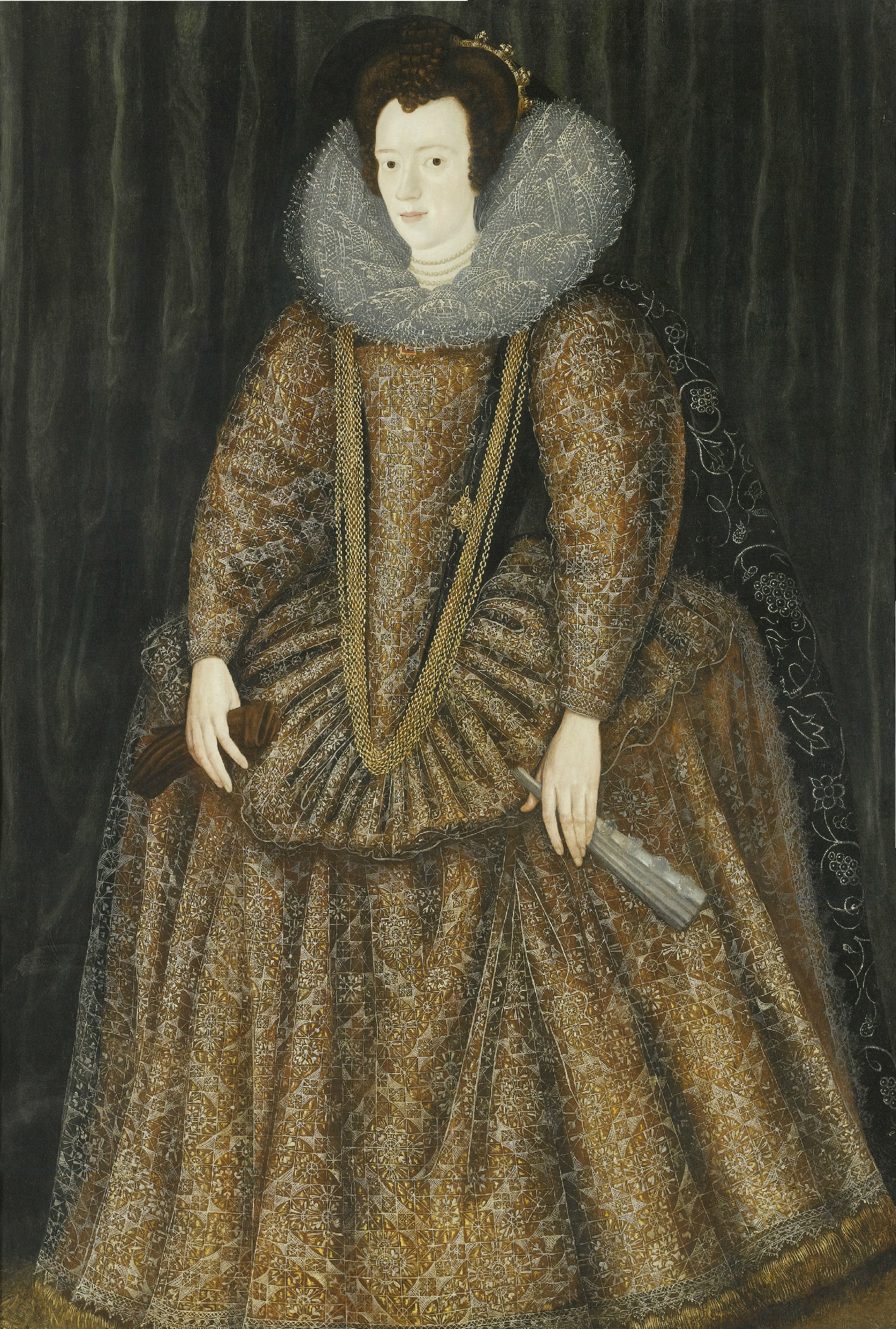 Portrait of Elizabeth Somerset, Countess of Worcester (1556–1621)